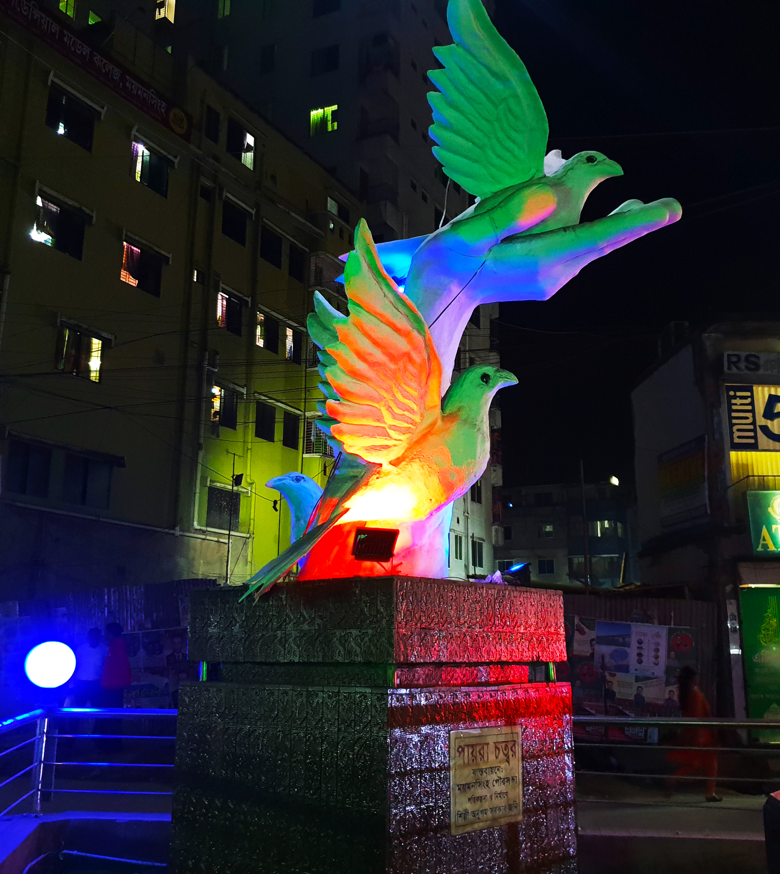 A sculpture in Natun Bazar Mor, Ram Babu Rd, Mymensingh 2200. Its built Anupom Sarkar Jony